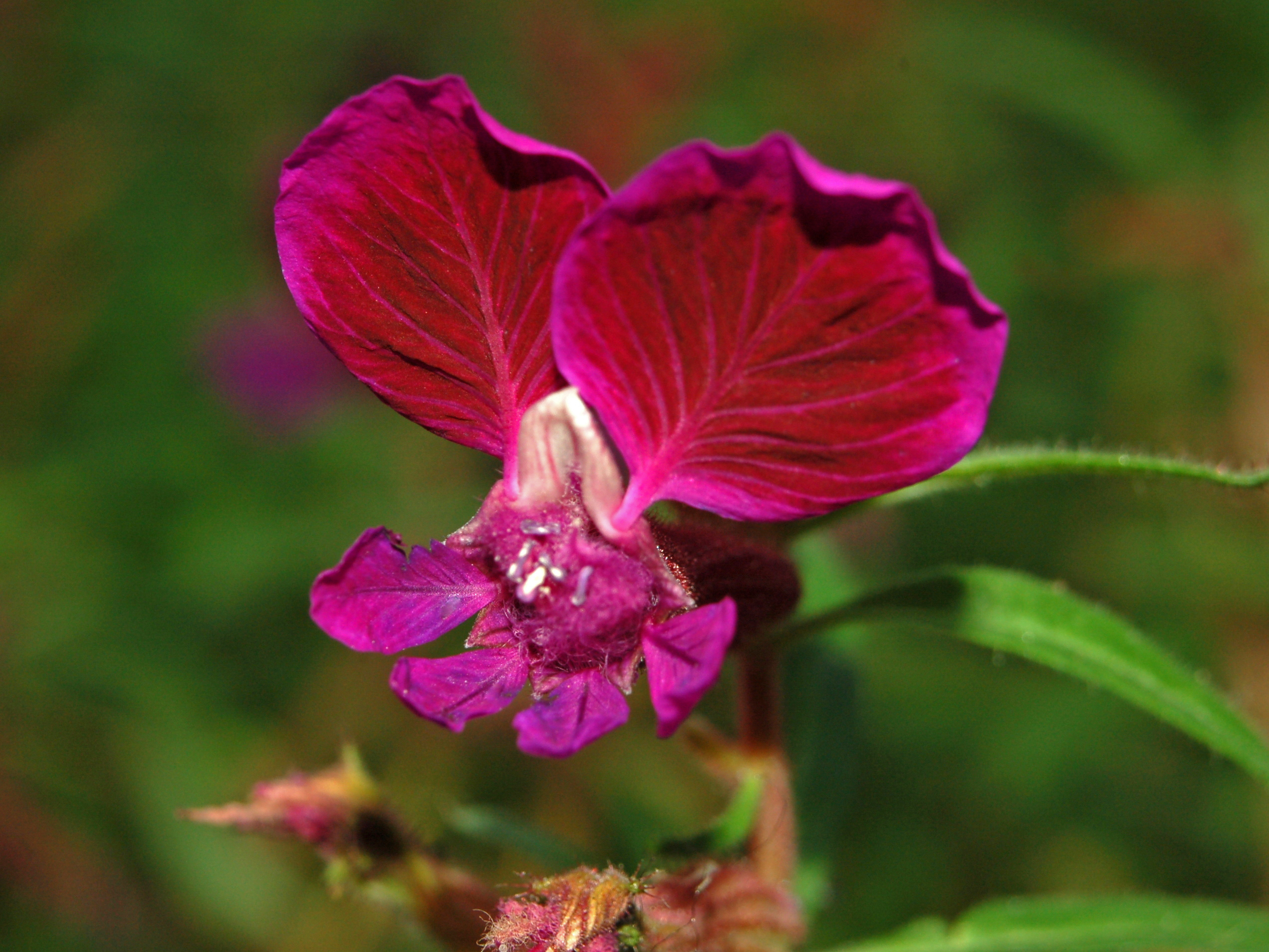 Cuphea lanceolata - Botanicka Zahrada Praha